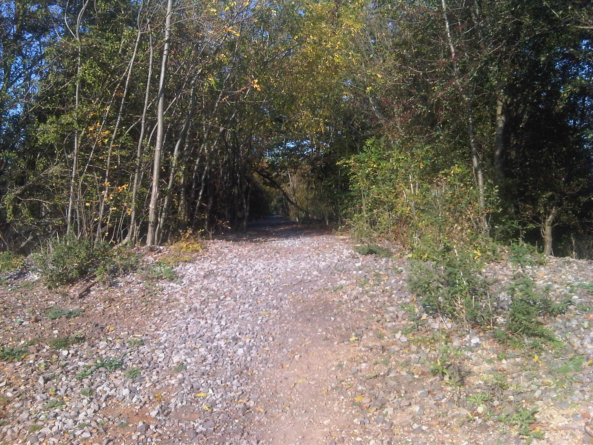 This is the sight of the old Wellingborough London Rd Railway Station.